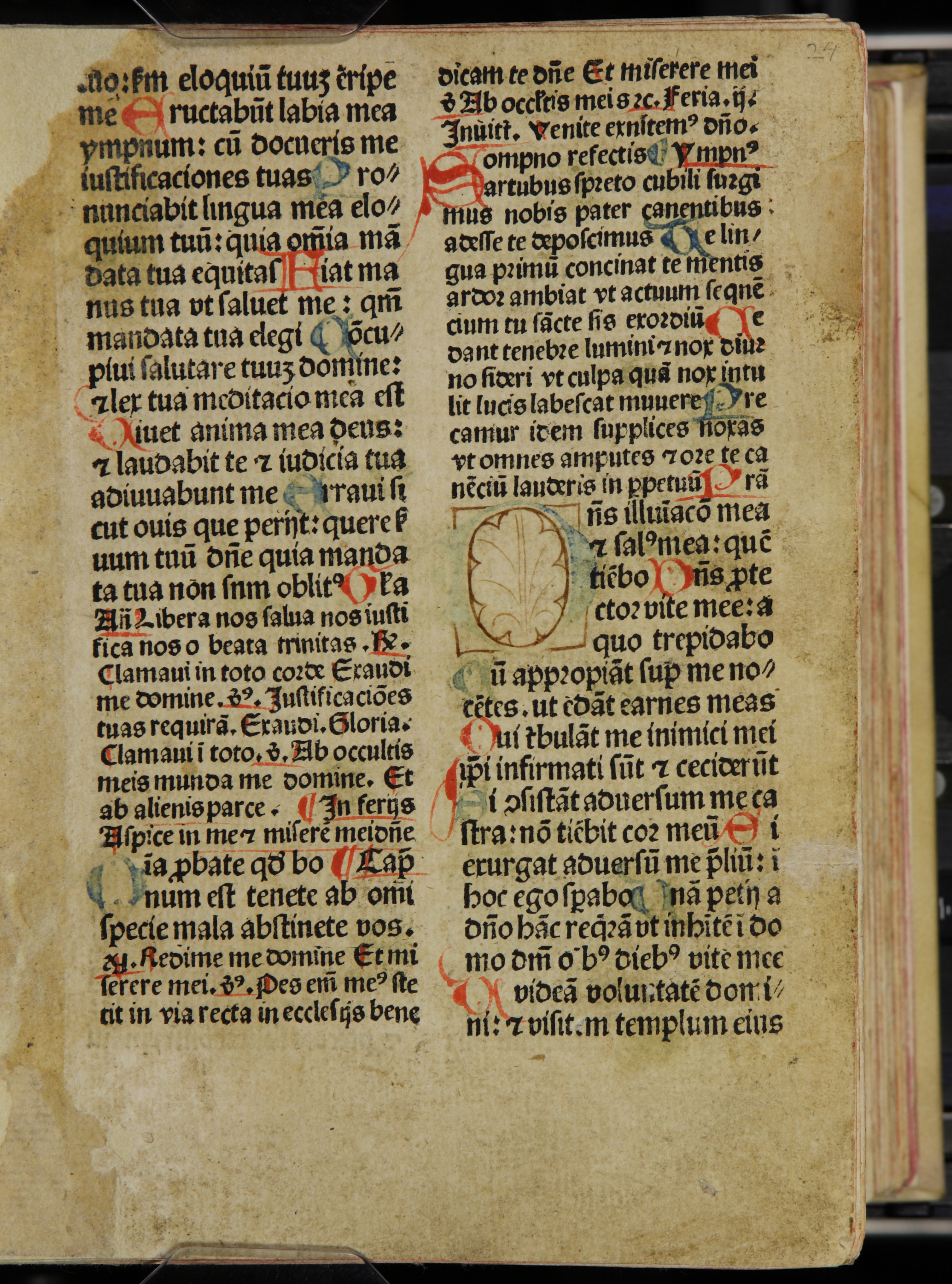 A page from Breviarium Ottoniense, which was a traditional catholic breviarium, printed in Odense in 1482. As such is was the first book to be printed in Scandinavia. There is no longer a complete version of the original book in existence, but Snell printed a new edition in Lübeck in 1495, so the missing pages are known.